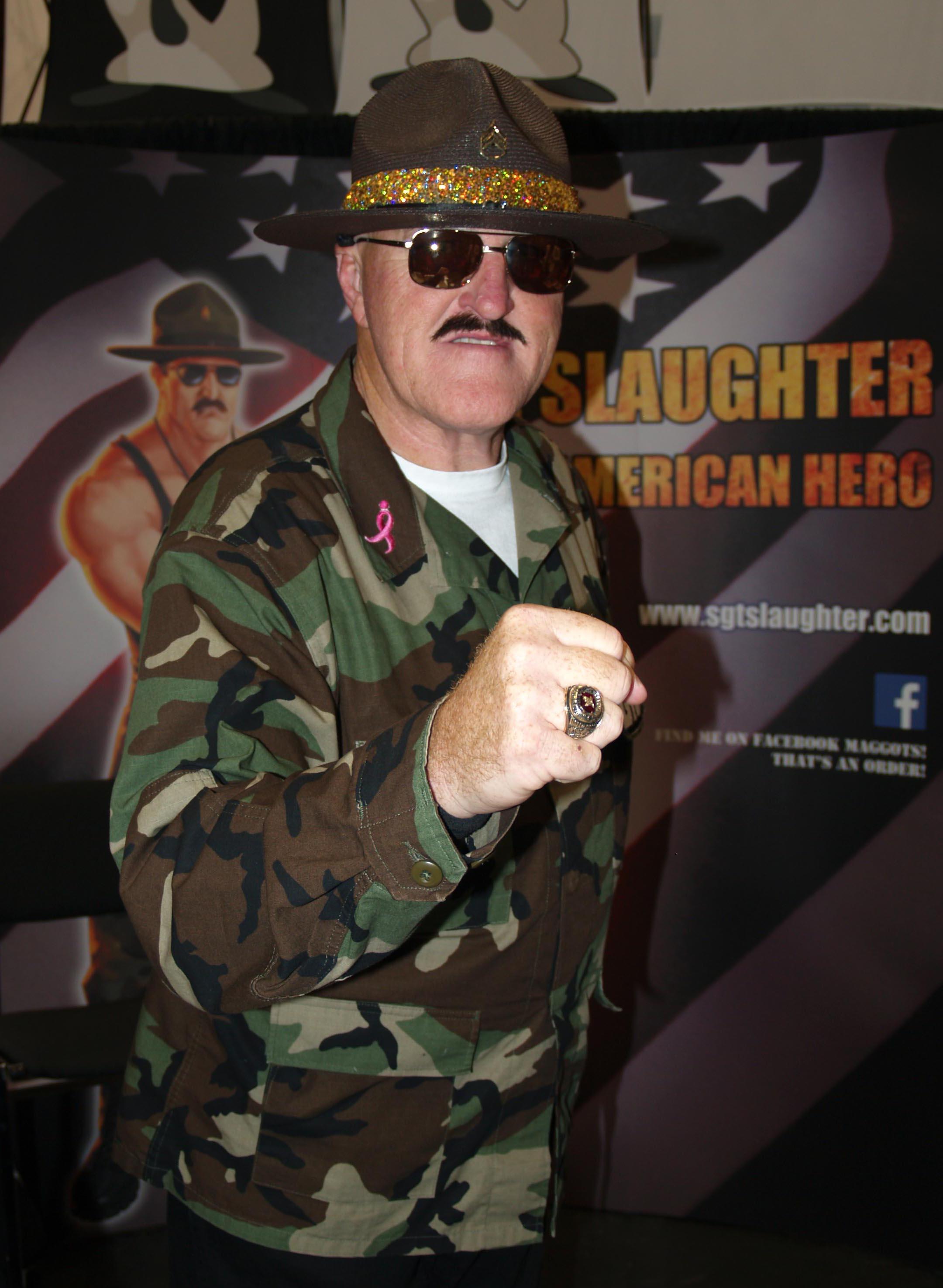 Professional wrestler Sgt. Slaughter on Friday, October 11, 2013 at the Jacob K. Javits Convention Center in Manhattan, Day 2 of the 2013 New York Comic Con. This photo was created by Luigi Novi. It is not in the public domain, and use of this file outside of the licensing terms is a copyright violation.